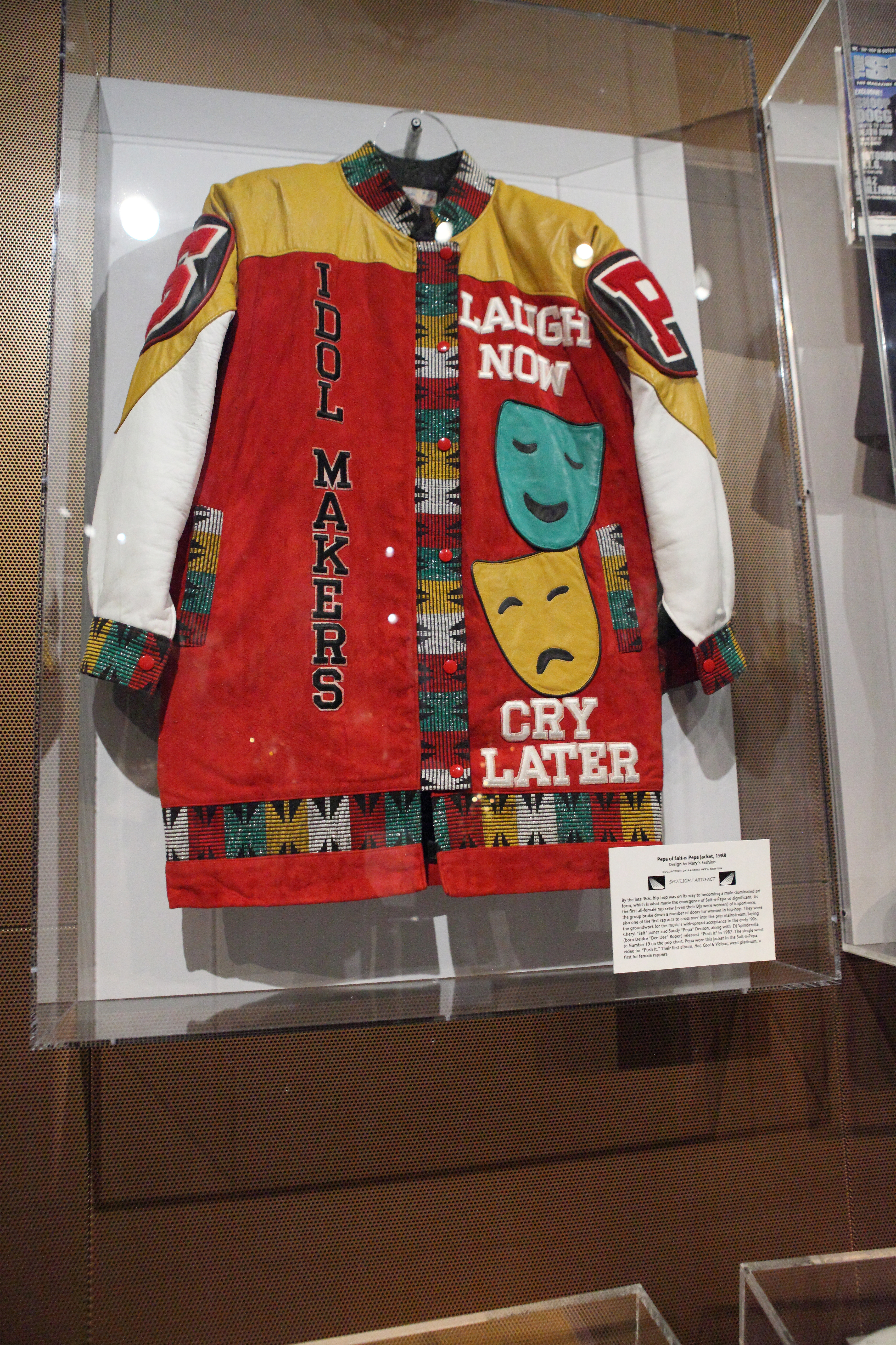 Jacket from Salt-N-Pepa at the Rock and Roll Hall of Fame in Cleveland, Ohio. Flickr Tags: ohio outfit clothing cleveland clothes jacket 1980s saltnpepa rockandrollhalloffame. Flickr Tags: Rock and Roll Hall of Fame Cleveland Ohio. from Flickr album "Rock and Roll Hall of Fame" by Sam Howzit